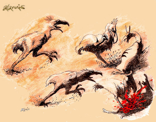 Proposed Phorusracid killing technique.